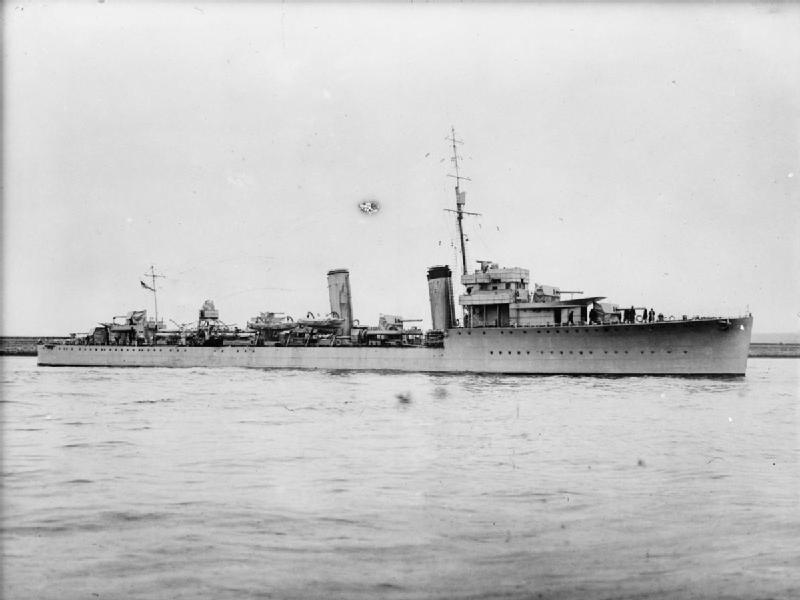 Photograph of British destroyer leader HMS Douglas.